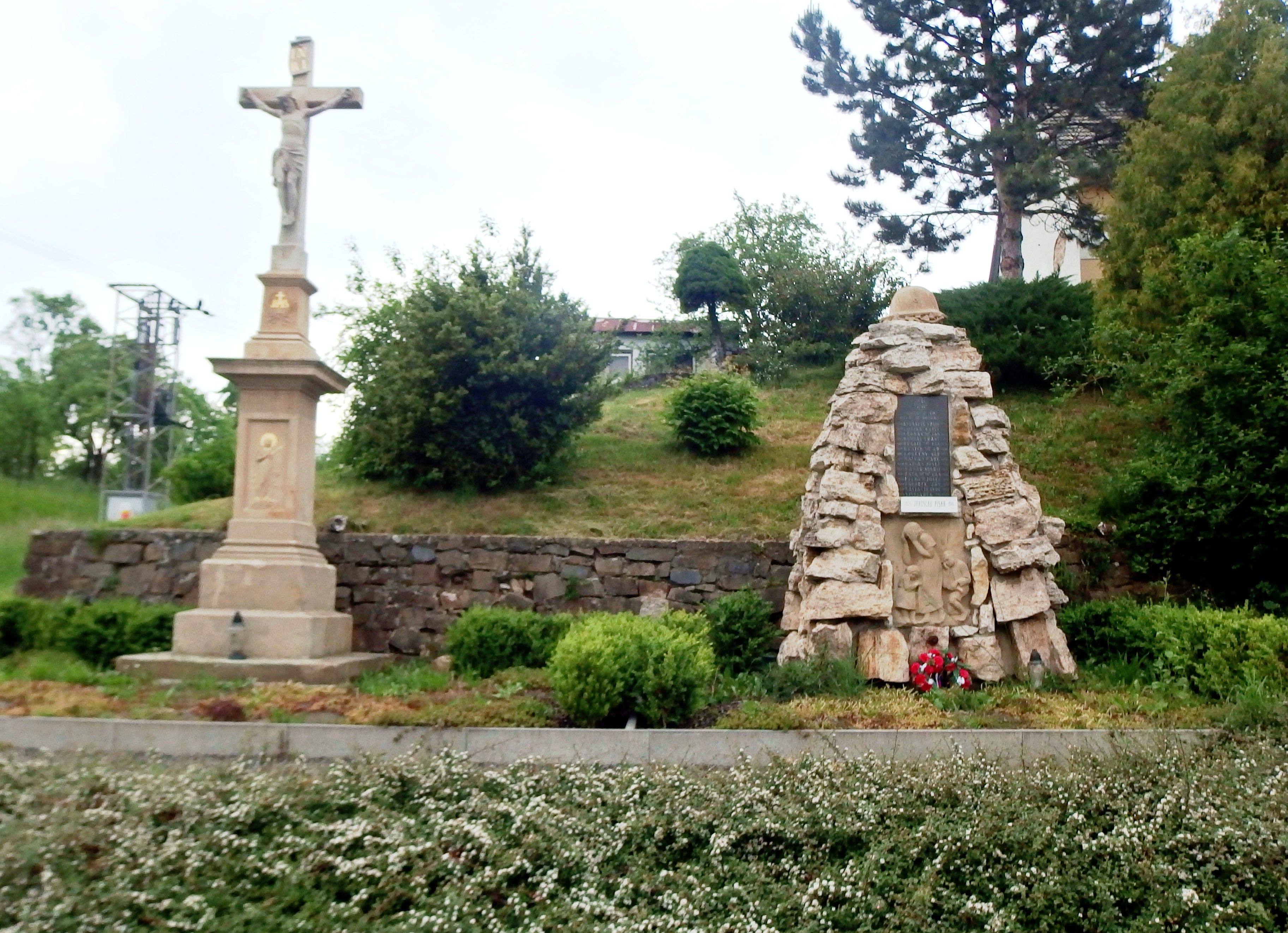 Lhota, Přerov District, Czech Republic.